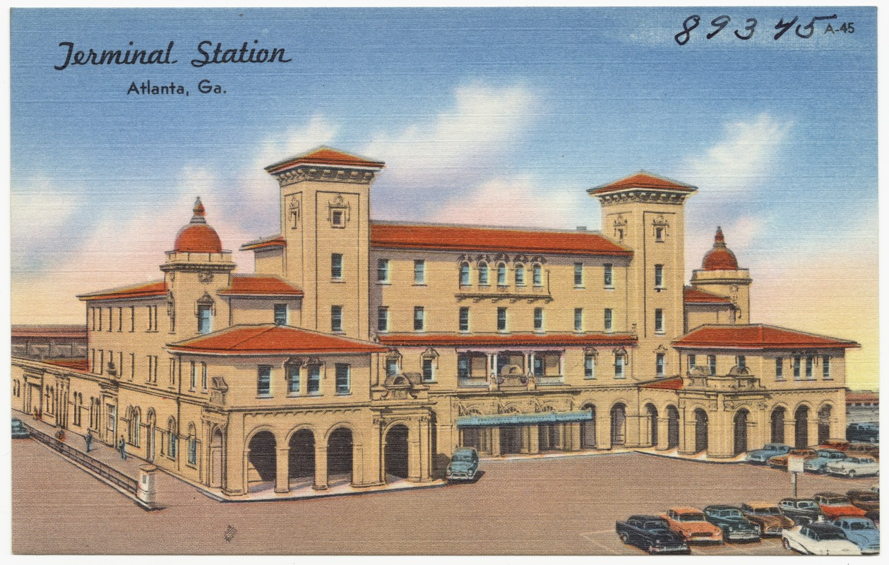 Postcard view of Atlanta Terminal Station c. 1949. Shows period automobiles and the shortened towers (pinnacles removed) resulting from the post-WWII renovation (late 1940s)